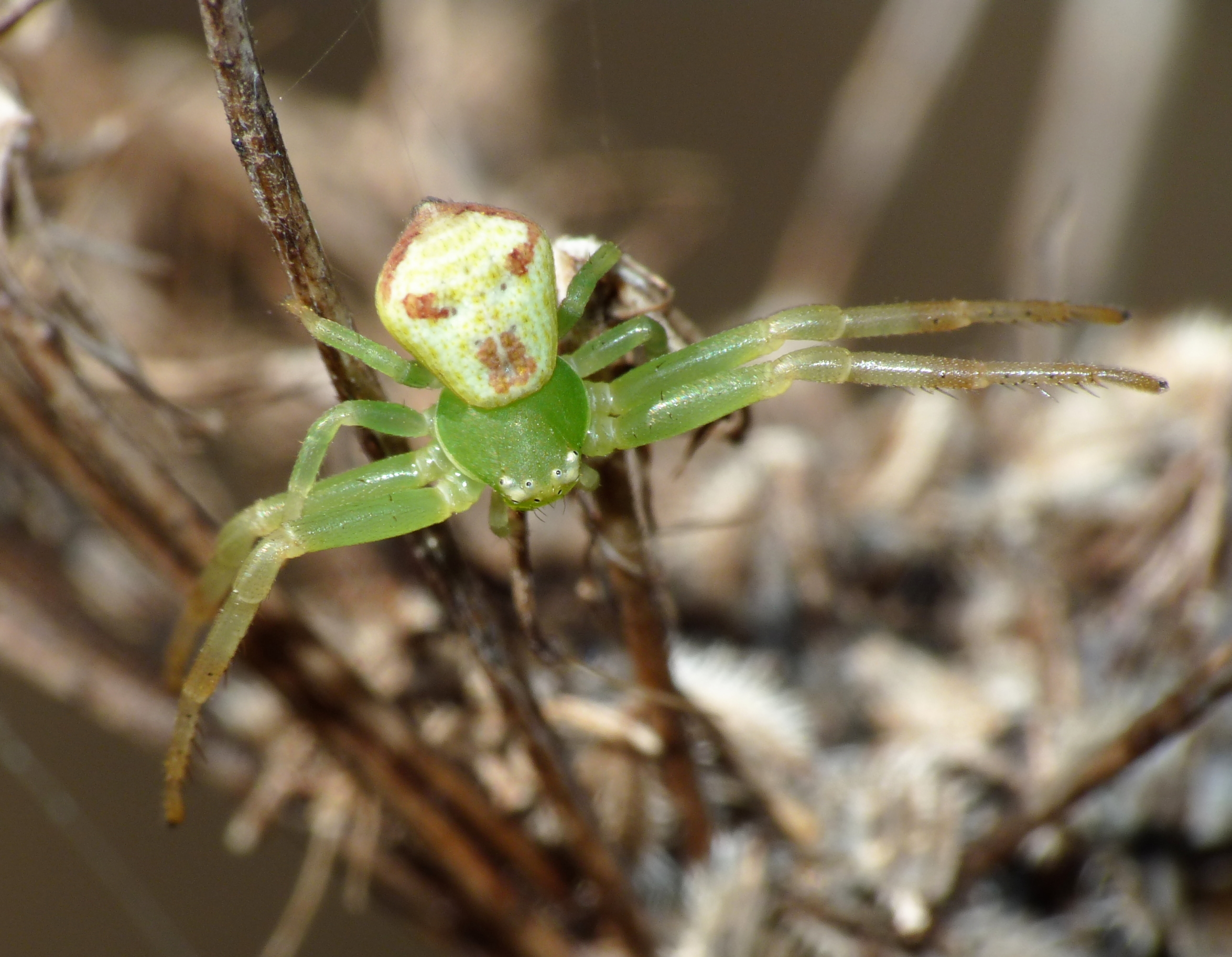 Ebrechtella tricuspidata, female, near Livorno, Tuscany, Italy